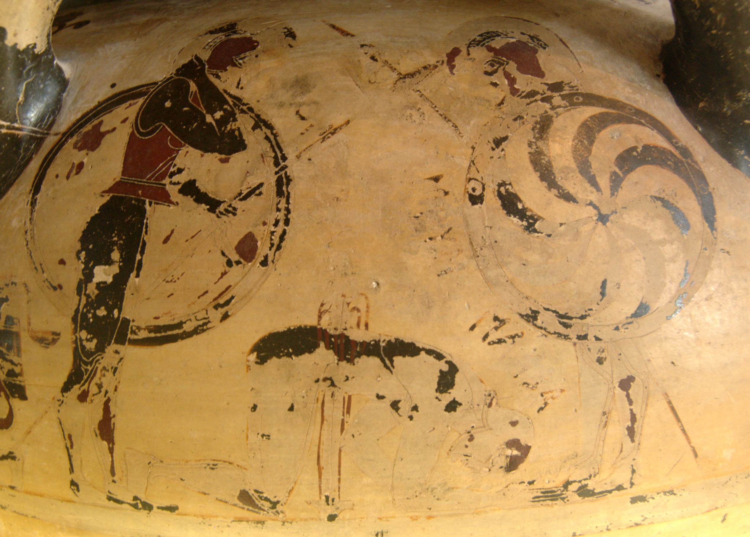 Suicide of Ajax the Great. Detail under the handle of a Corinthian black-figured column-krater known as the Eurytios Krater, ca. 600 BC.